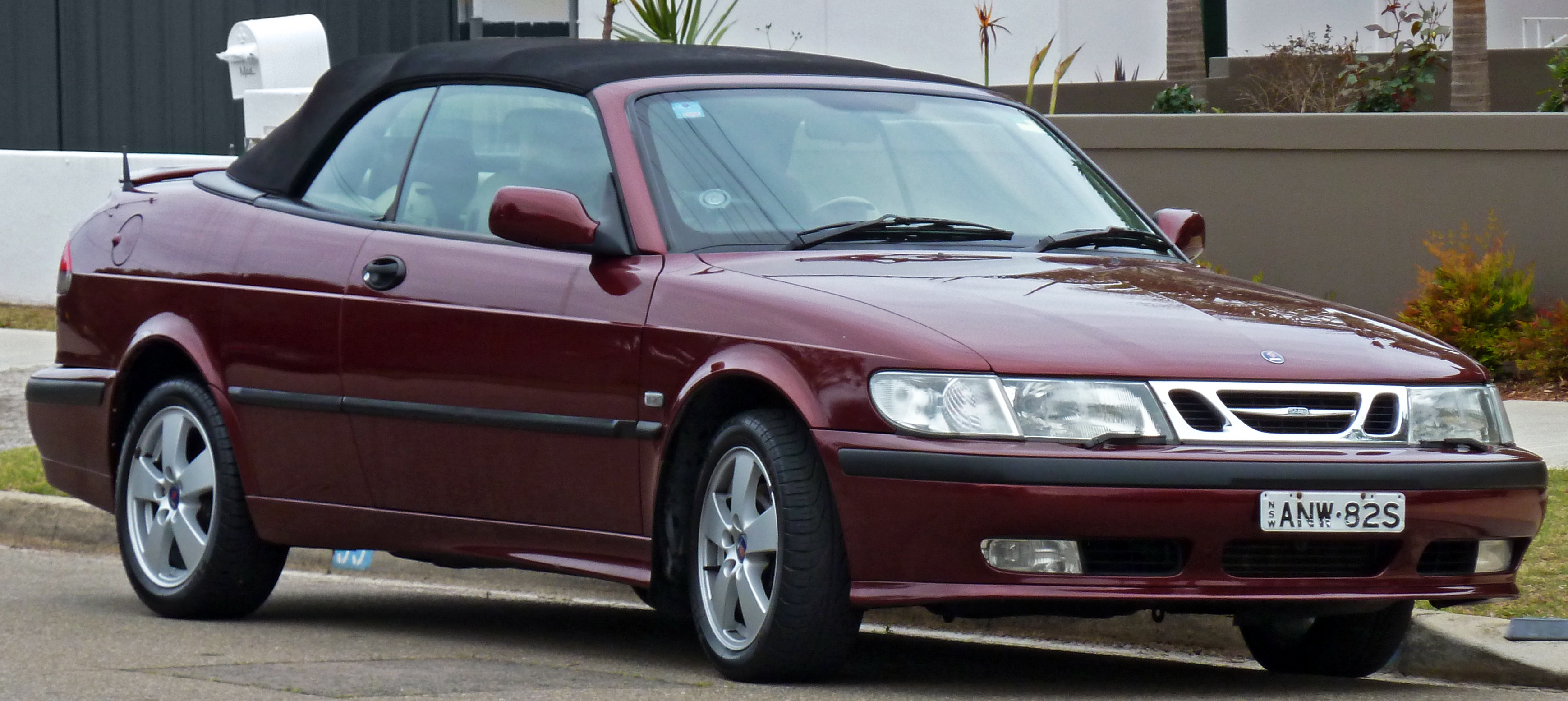 2001–2002 Saab 9-3 (MY02) Anniversary convertible. Photographed in Sans Souci, New South Wales, Australia.